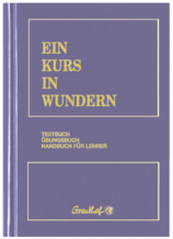 Cover of book A Course in Miracle, German version